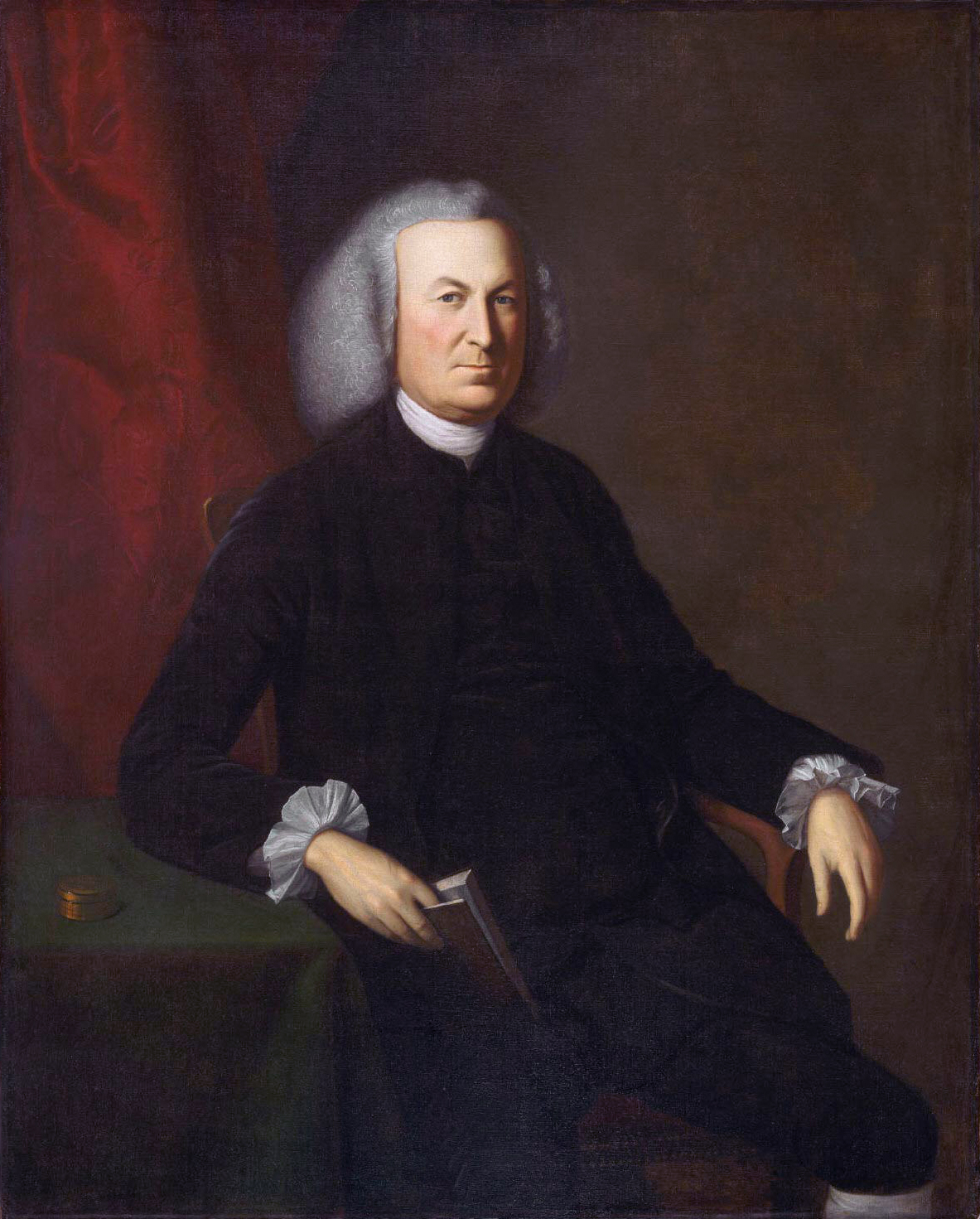 Dr. Thomas Cadwalader oil on canvas 128.3 x 102.9 cm